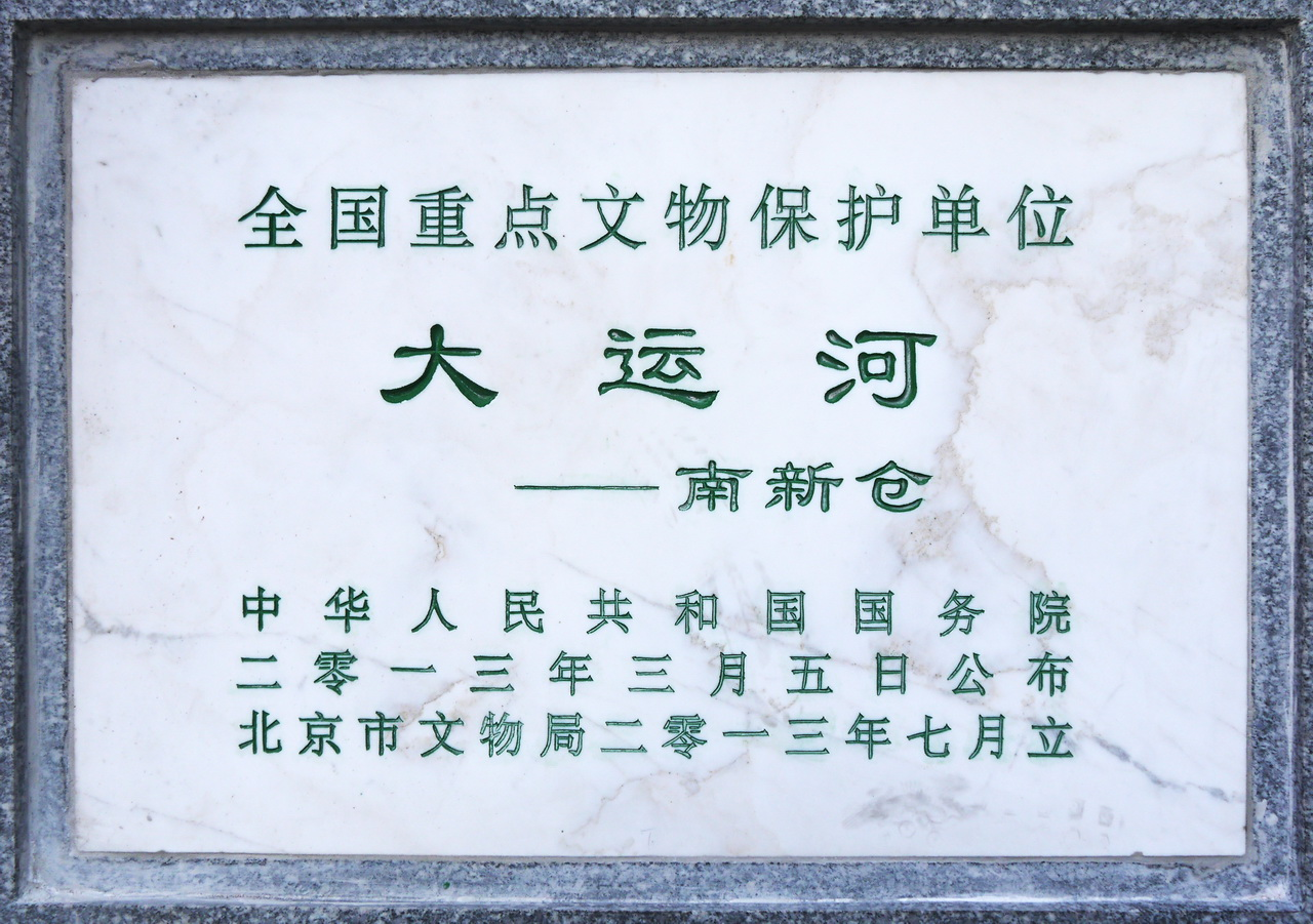 Nanxincang Granary, Grand Canal of China